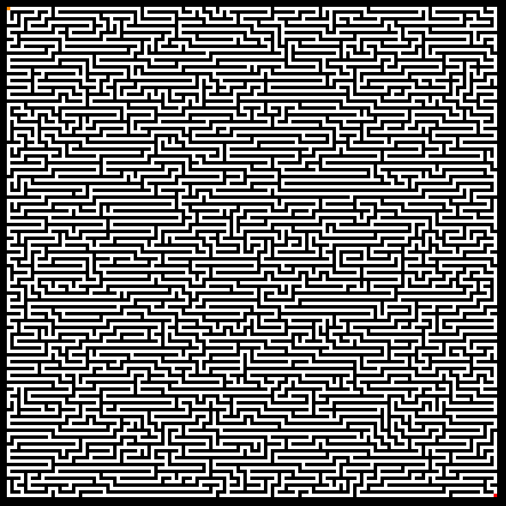 Horizontal Influence